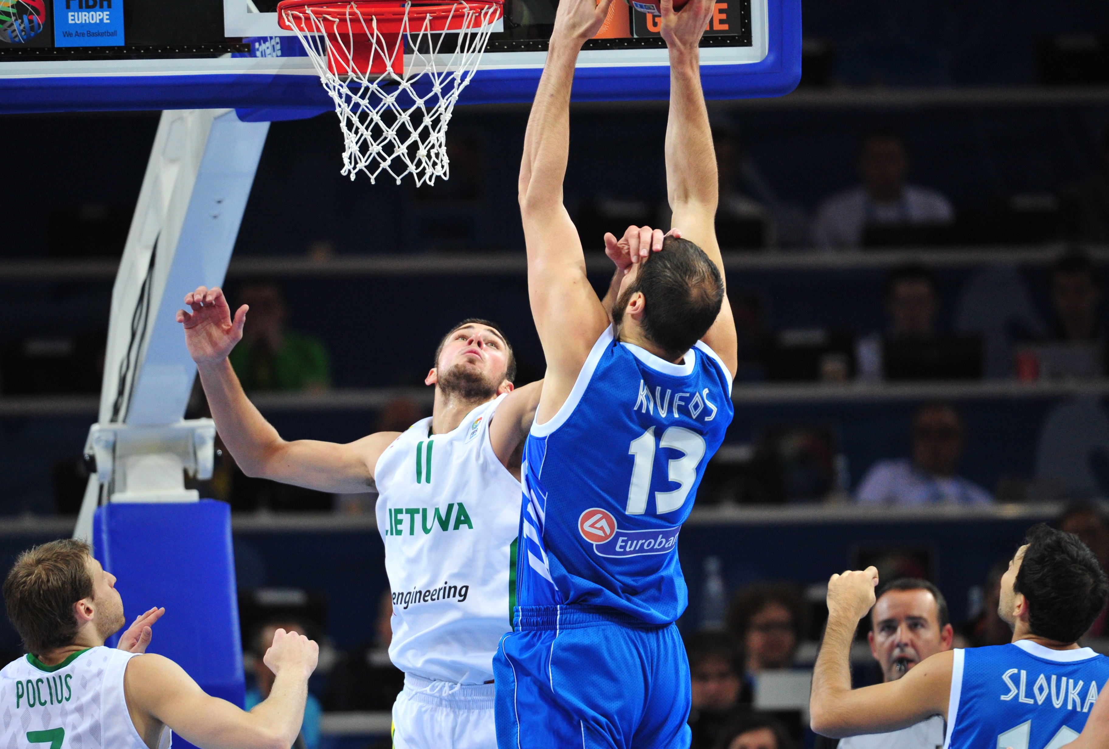 Jonas Valančiūnas against Kostas Koufos.